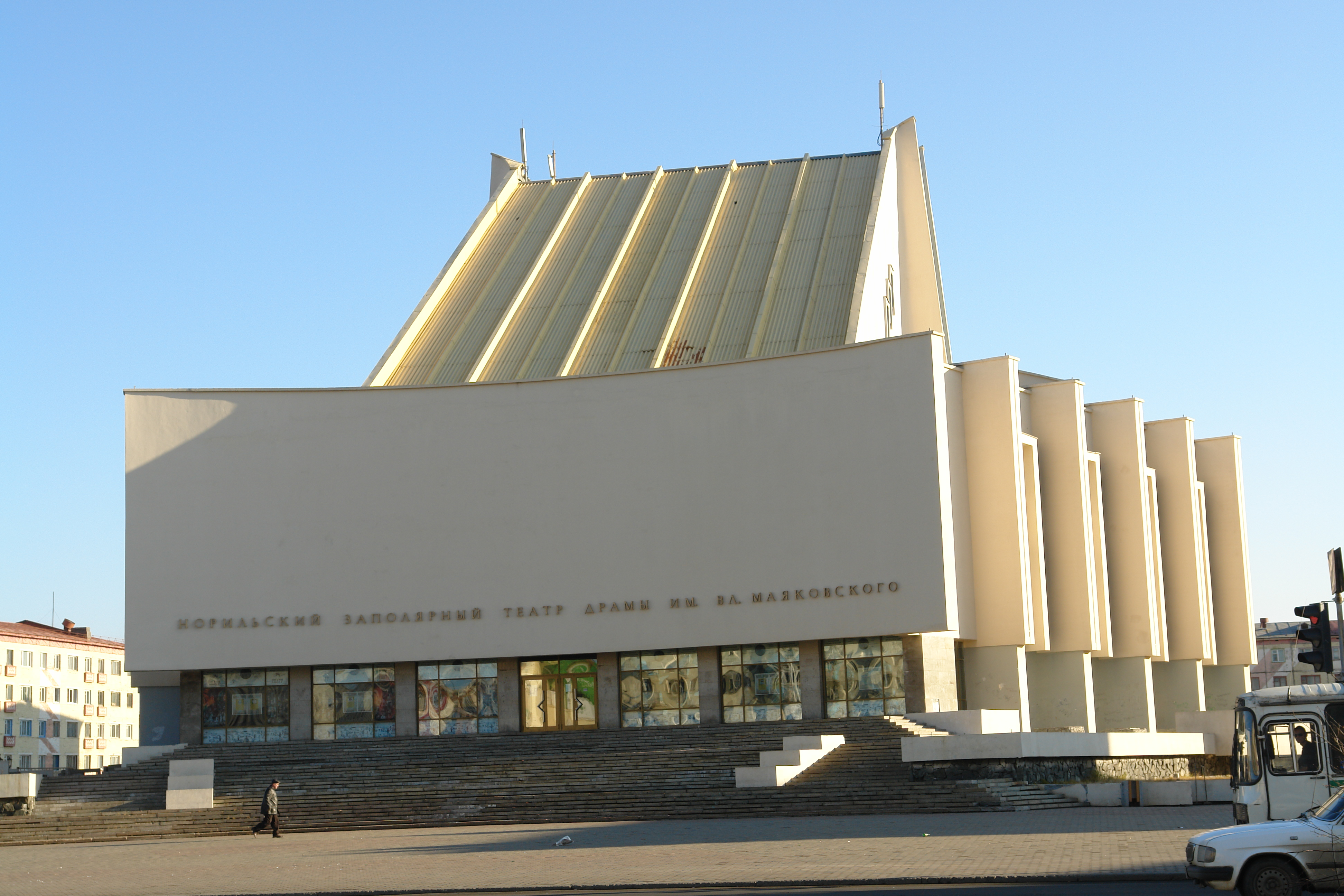 Theate of Norilsk